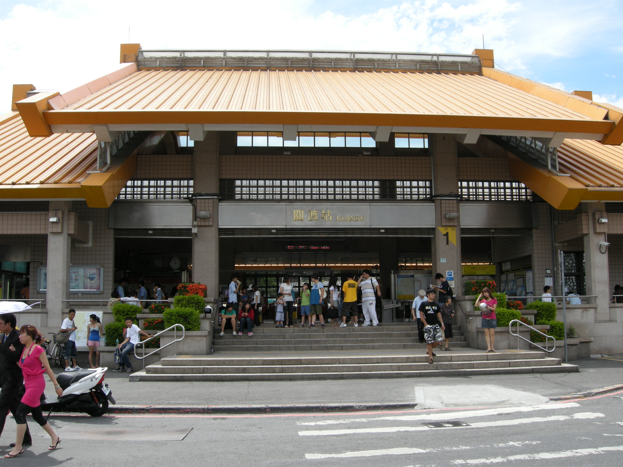 The exit 1(front gate) of Taipei MRT Guandu Station at Red Line (R30).